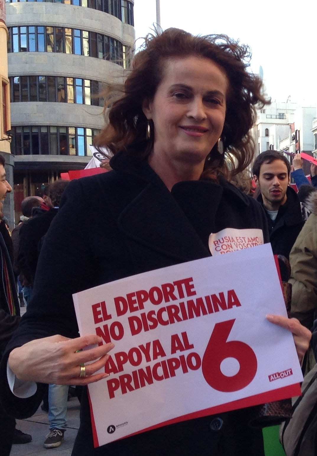 Carla Antonelli and Puri Causapié. Principle 6, a campaign inspired by the values of the Olympic charter, is a way for athletes, fans and global supporters to celebrate the Olympic principle of non-discrimination and speak out against Russia’s anti-gay laws before the 2014 Winter Olympics in Sochi.